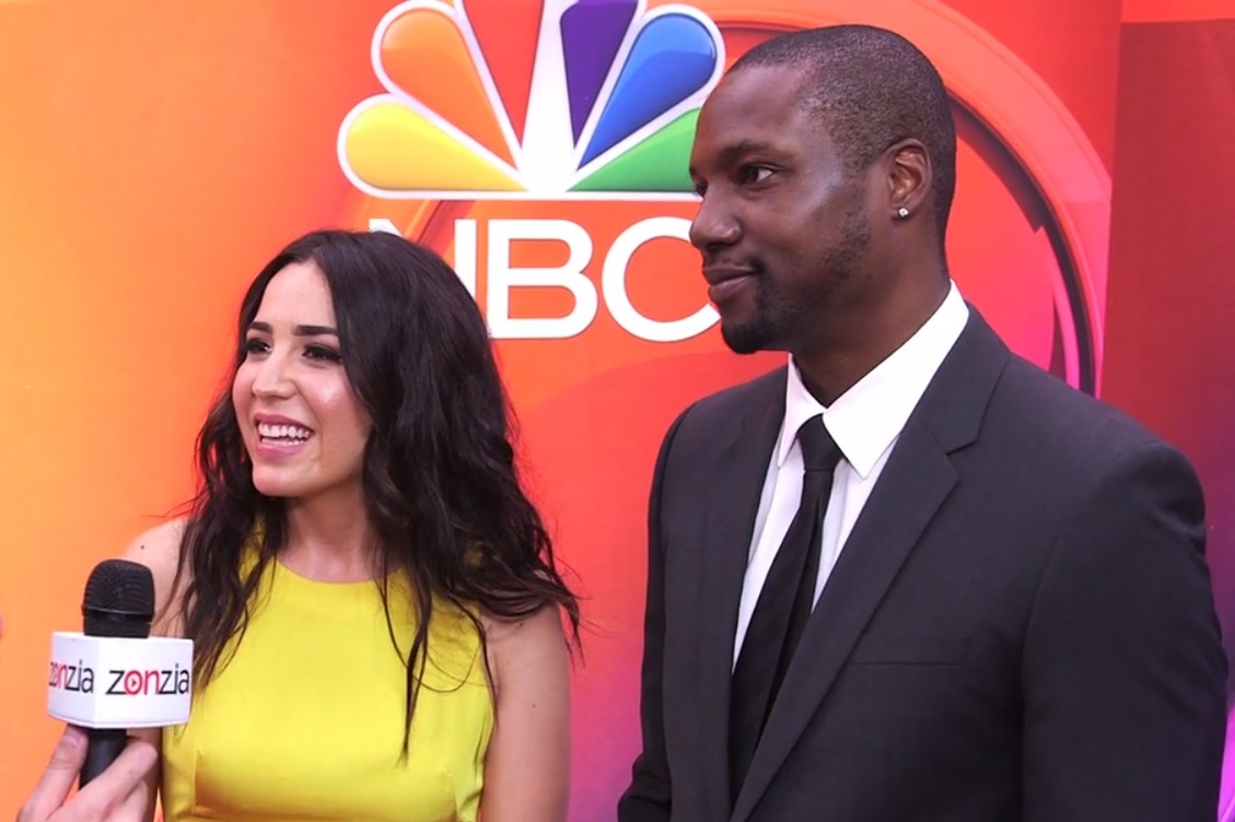 American actors Audrey Esparza and Rob Brown interviewed by Behind The Velvet Rope TV about their television series Blindspot.